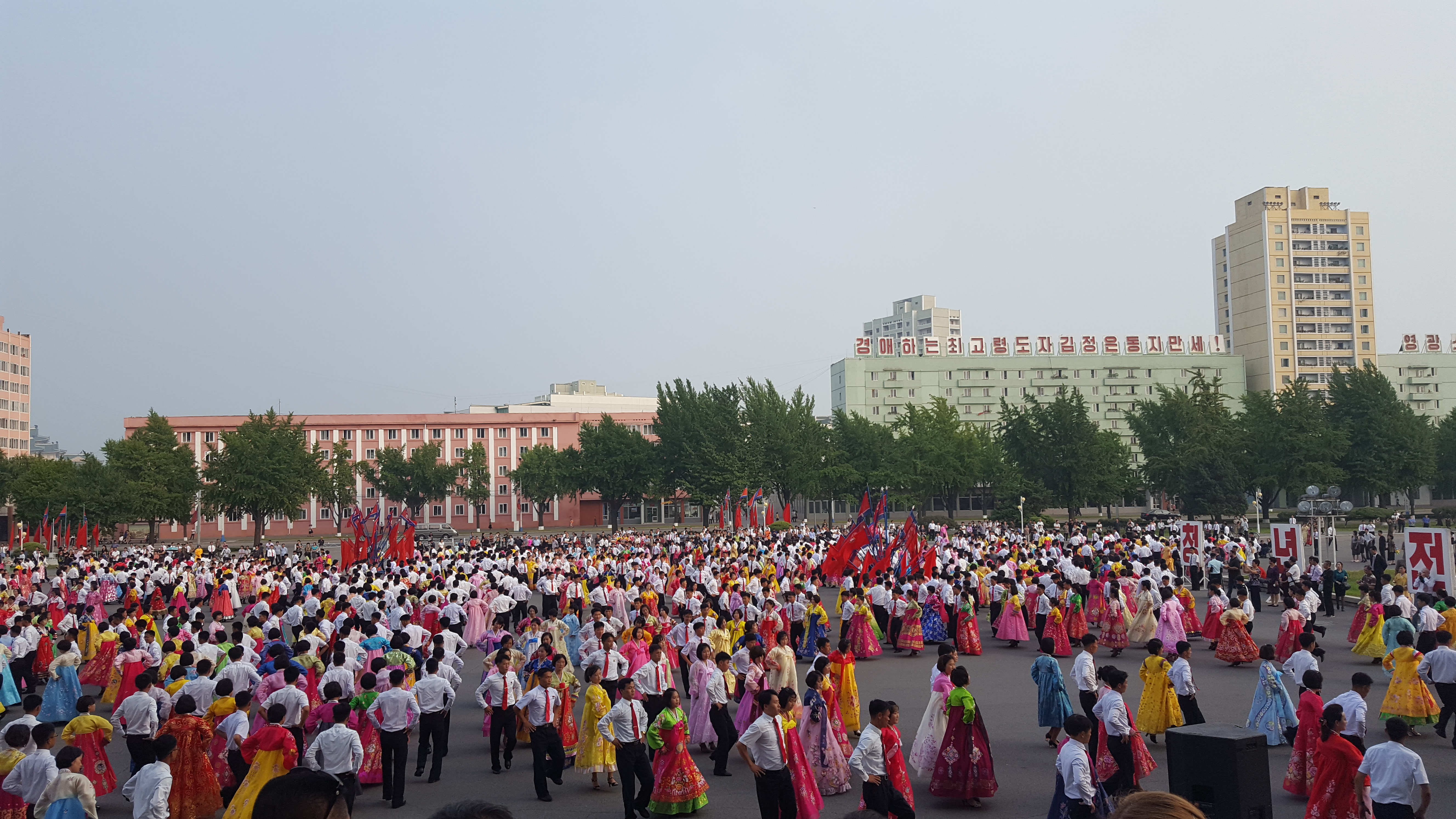 University students danced on the 69th founding anniversary of the DPRK (9/9/2017) outside Pyongyang Indoor Stadium